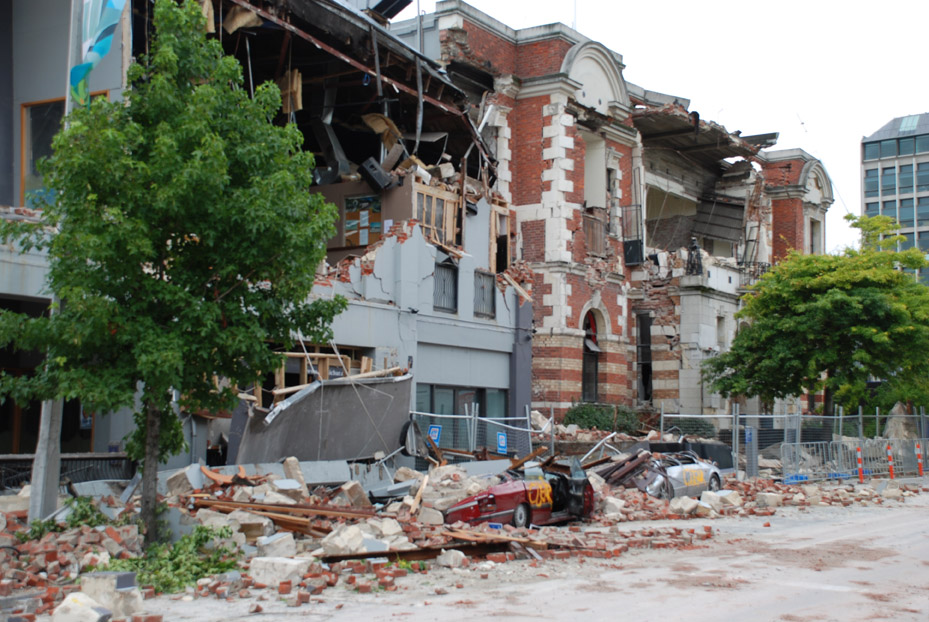 Manchester and Gloucester Street corner.